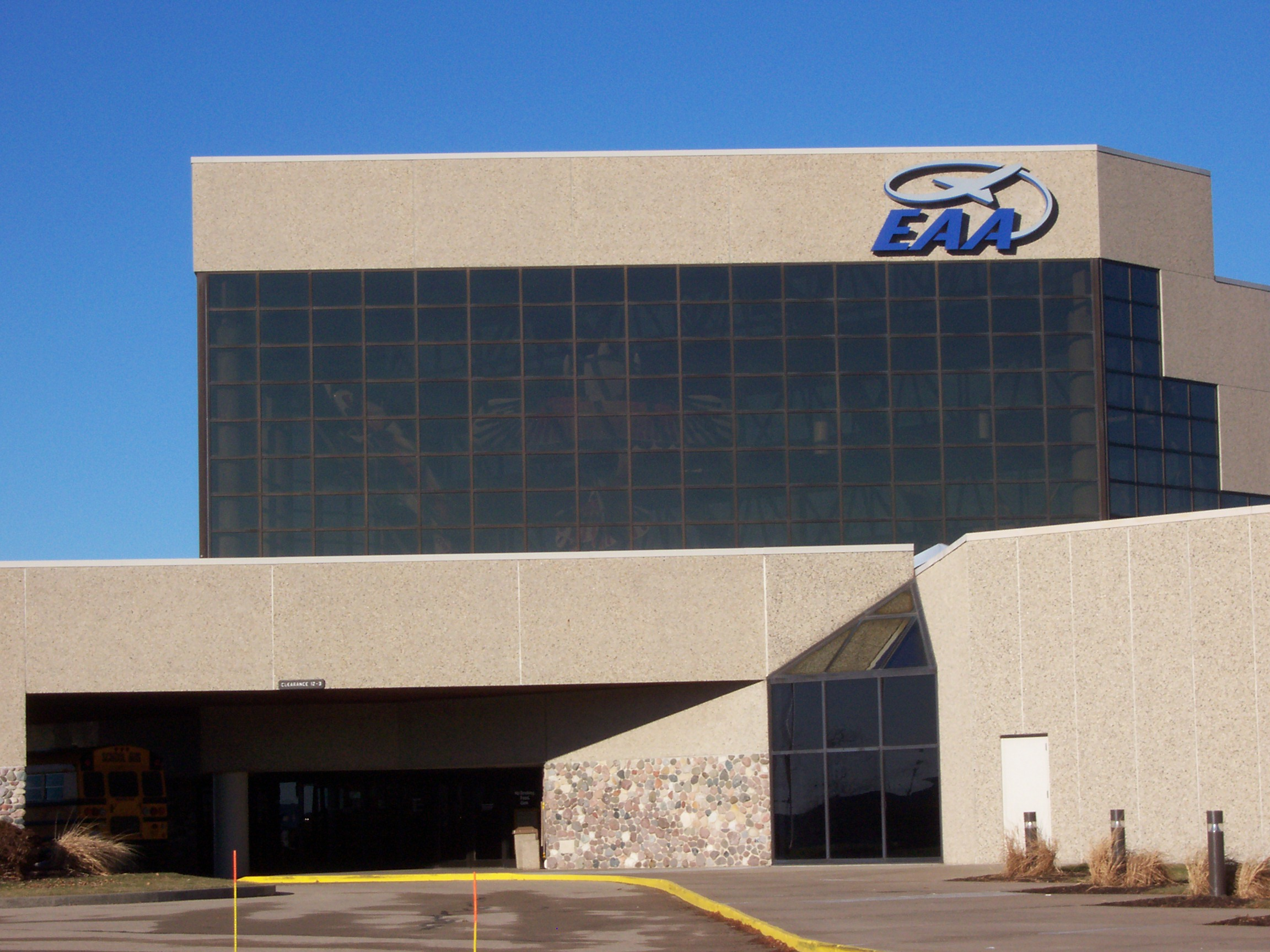 The Experimental Aircraft Association (EAA) Air Adventure Museum in Oshkosh, Wisconsin, USA.